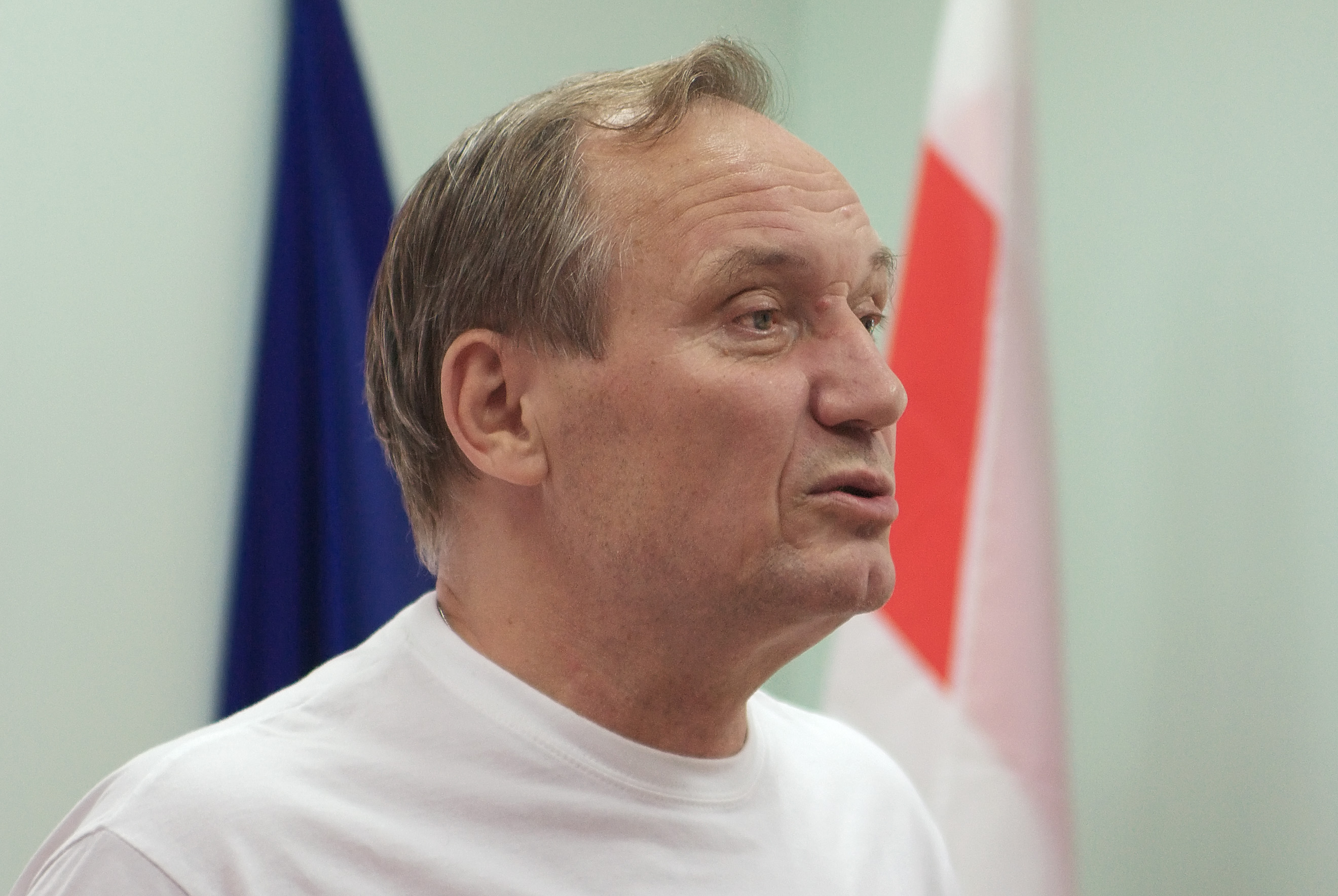 Uladzimir Niakliaew